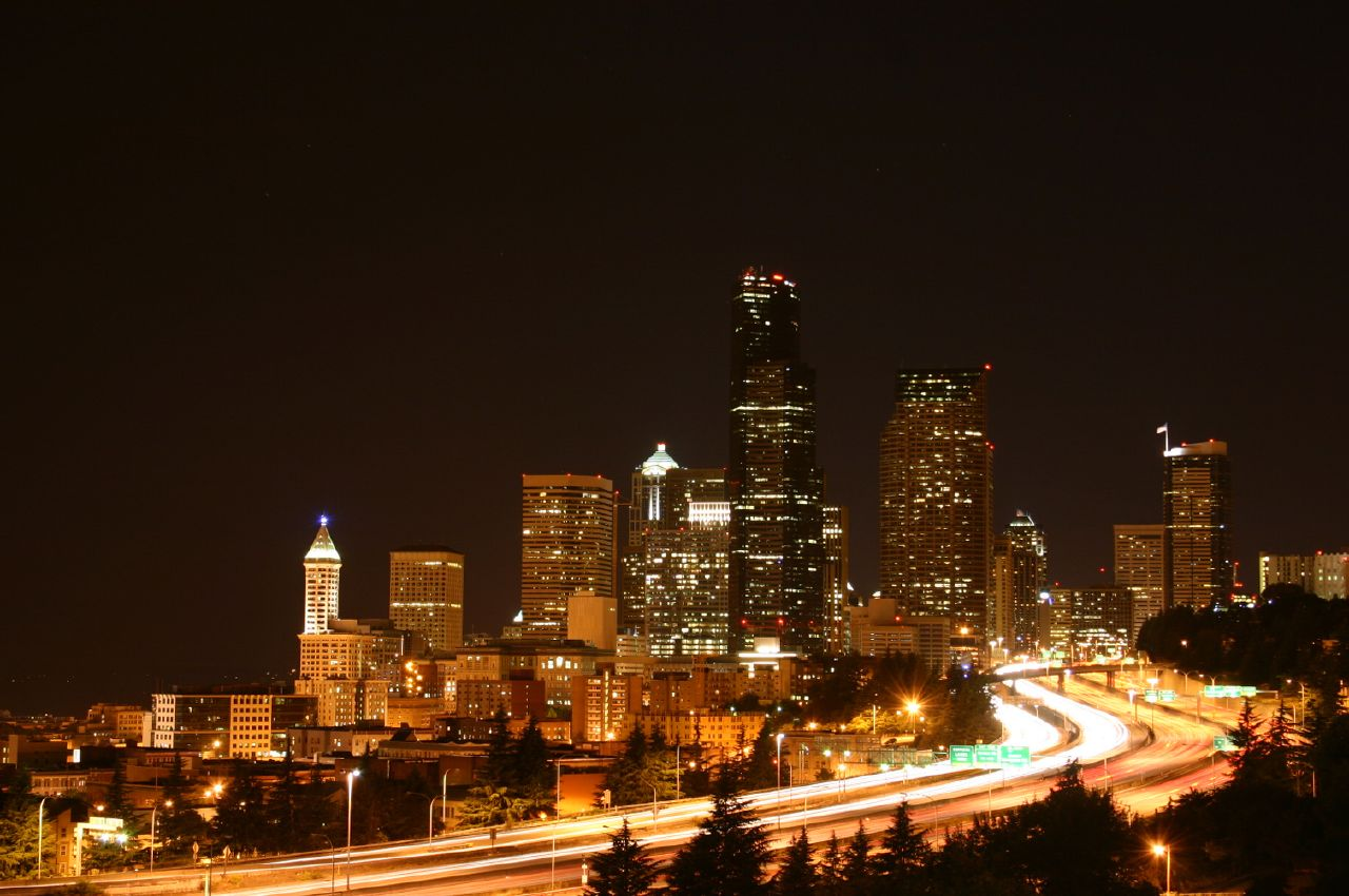 Seattle, Washington, USA.